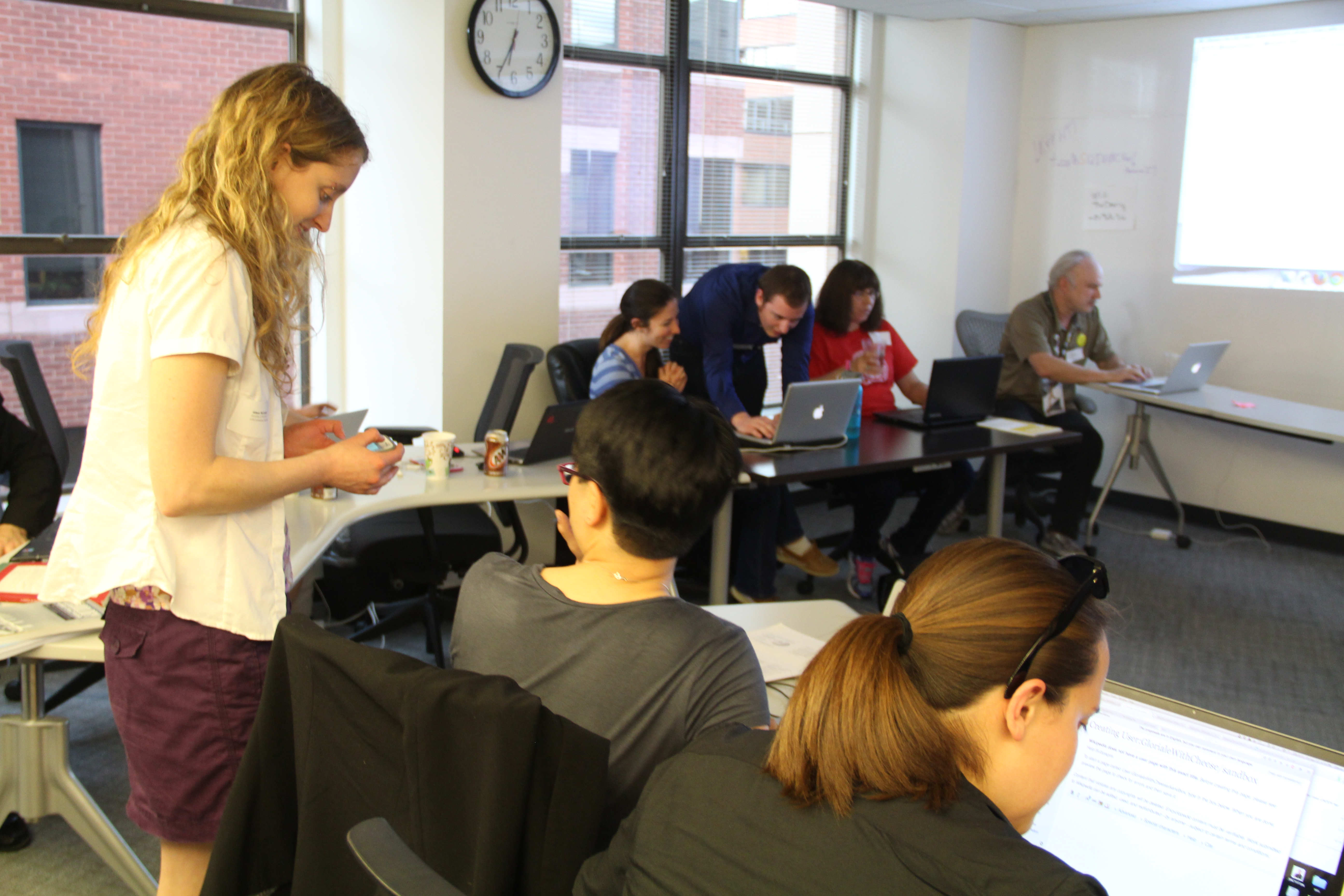 Tech LadyMafia Edit-a-thon Friday, April 17, 2015 Women in Tech